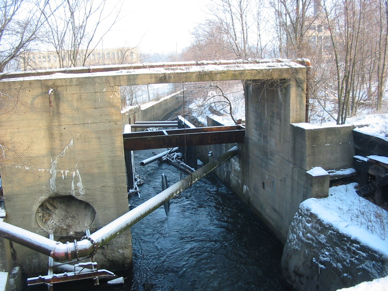 Portage Creek at Alcott St, Kalamazoo, Michigan looking North on December 31, 2007. The creek was contaminated with PCBs discharged by the Allied Paper Corporation.